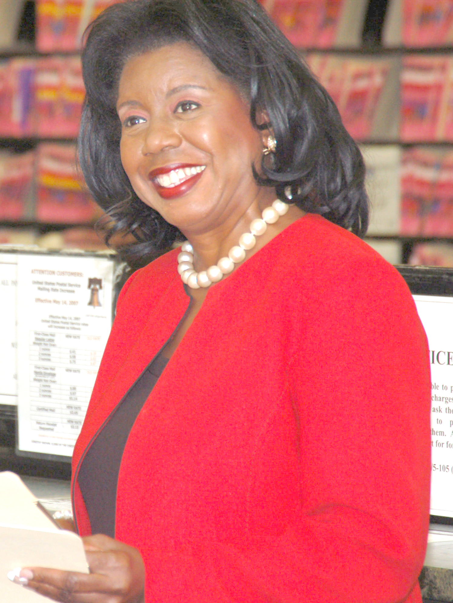 Circuit Court Clerk Dorothy Brown stands near court case files